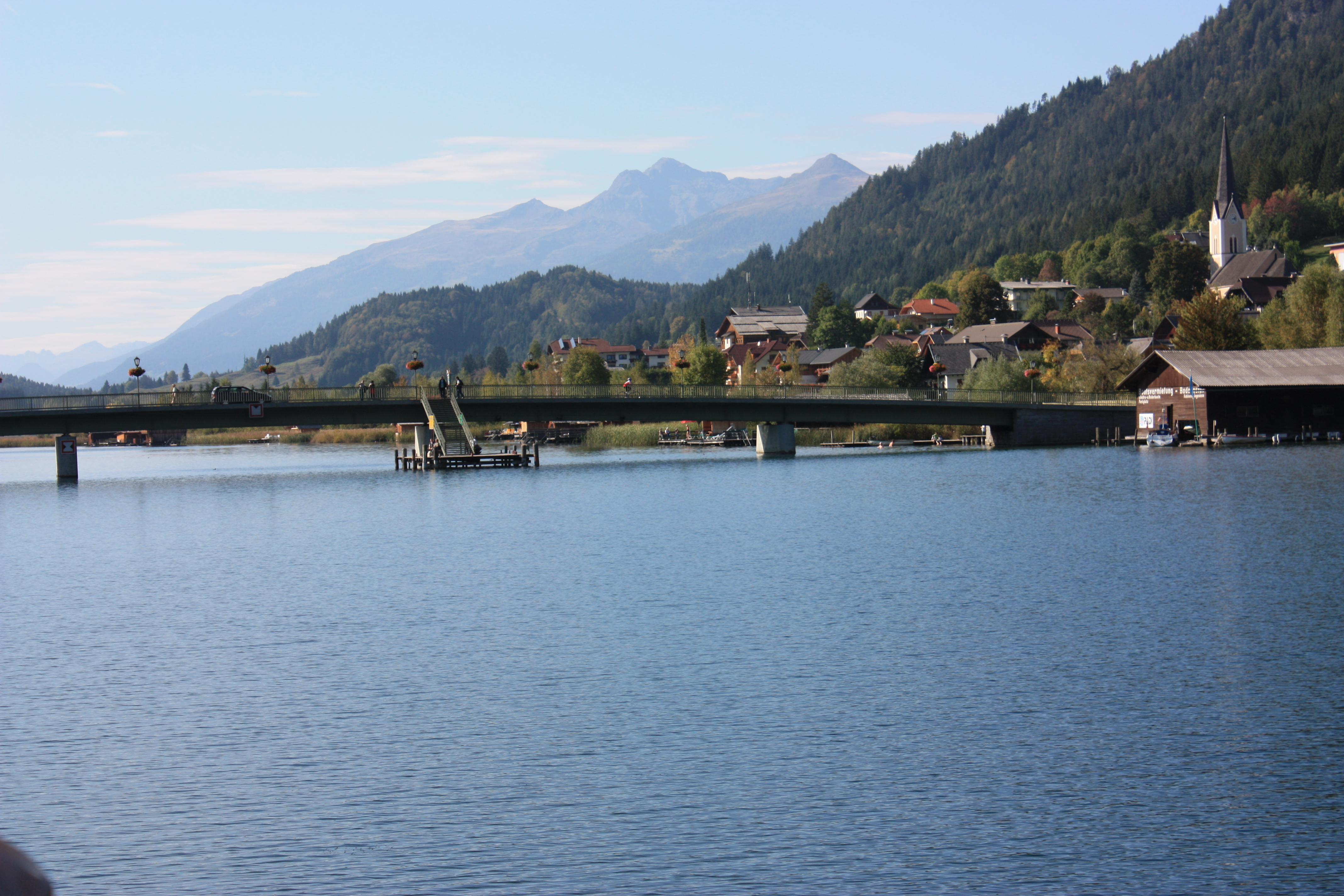 Weißensee - View to the bridge Locality:Techendorf Community:Weißensee